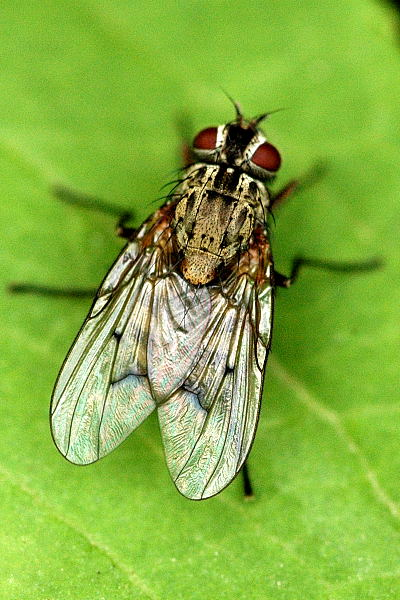 Phaonia fuscata from Commanster, Belgian High Ardennes .